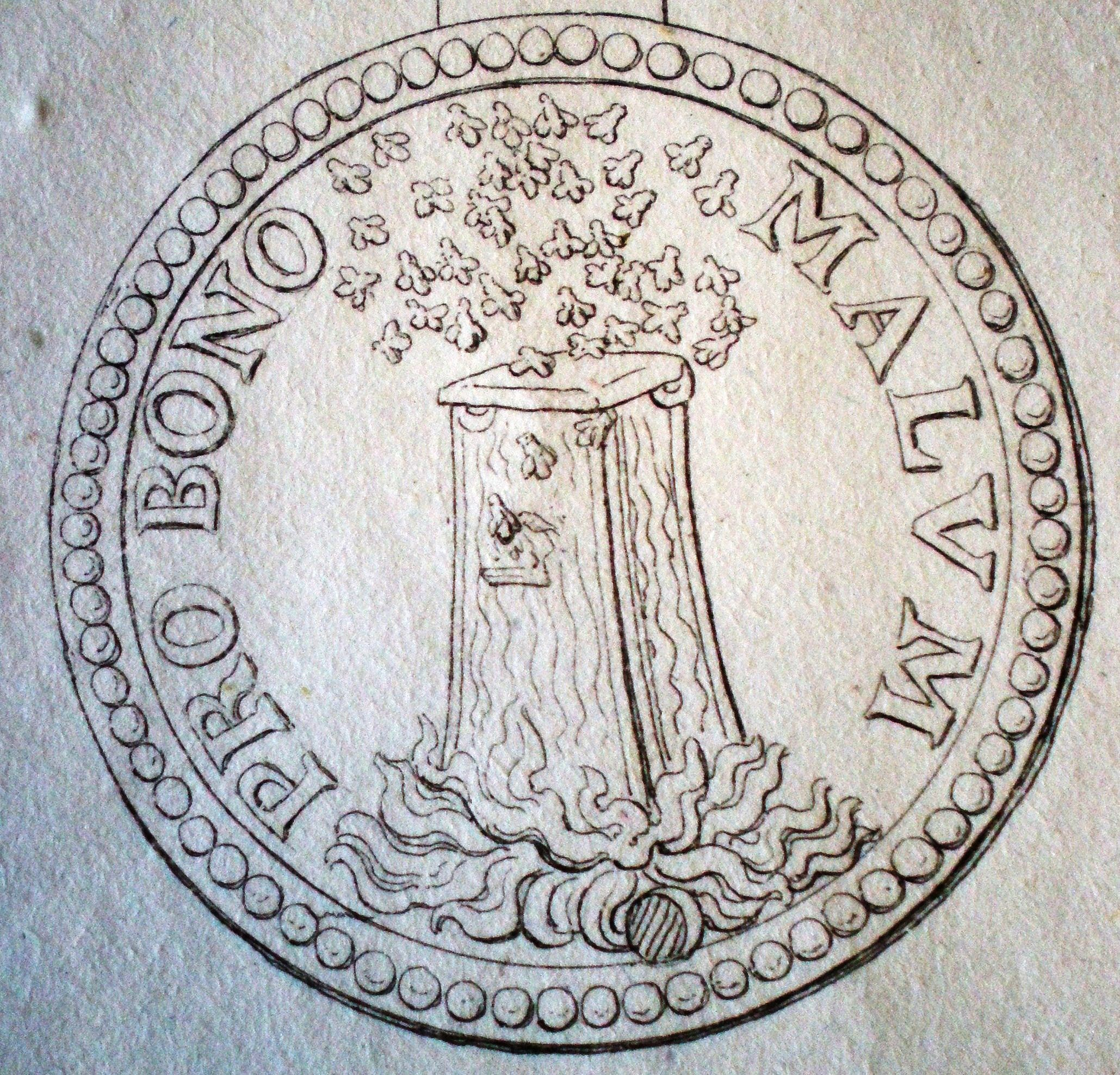 photograph from Litta (1700)